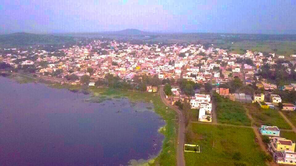 Ariel view of Lakshmipuram village